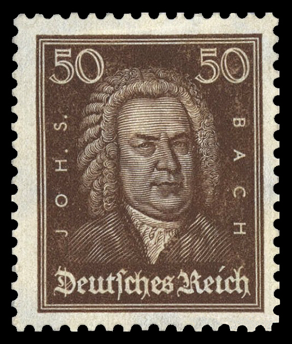 series of stamps of the German Empire, Johann Sebastian Bach (1685-1750) Ausgabepreis: 50 Pfennig First Day of Issue / Erstausgabetag: 1. November 1927 Michel-Katalog-Nr: 396 (Deutsches Reich)